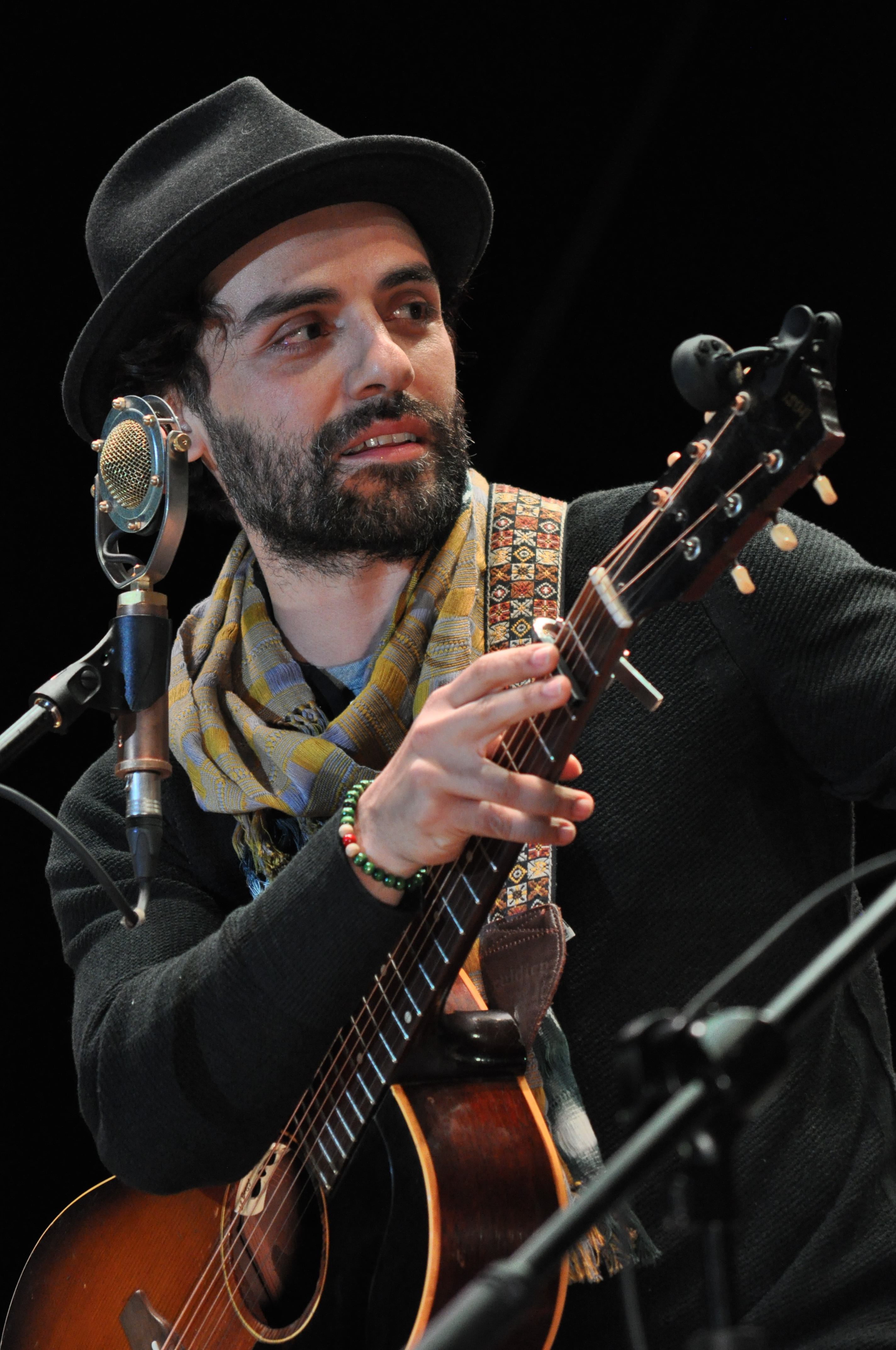 Actor and singer Oscar Isaac singing at Marroquín University Guatemala-City